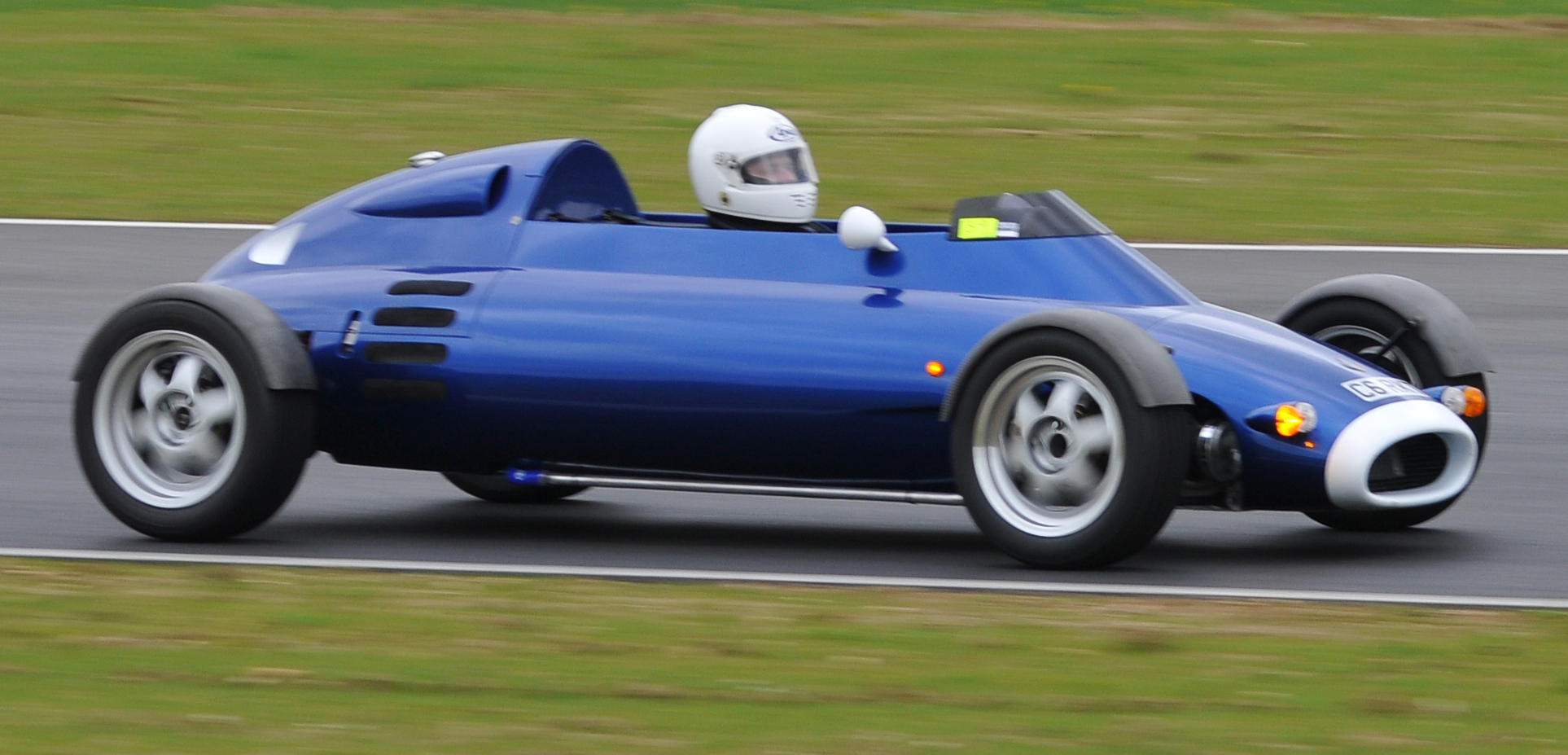 Light Car Company Rocket, Gordon Murray designed motorycle engined sportscar. At the Snetterton Trackday, April 17th 2011.